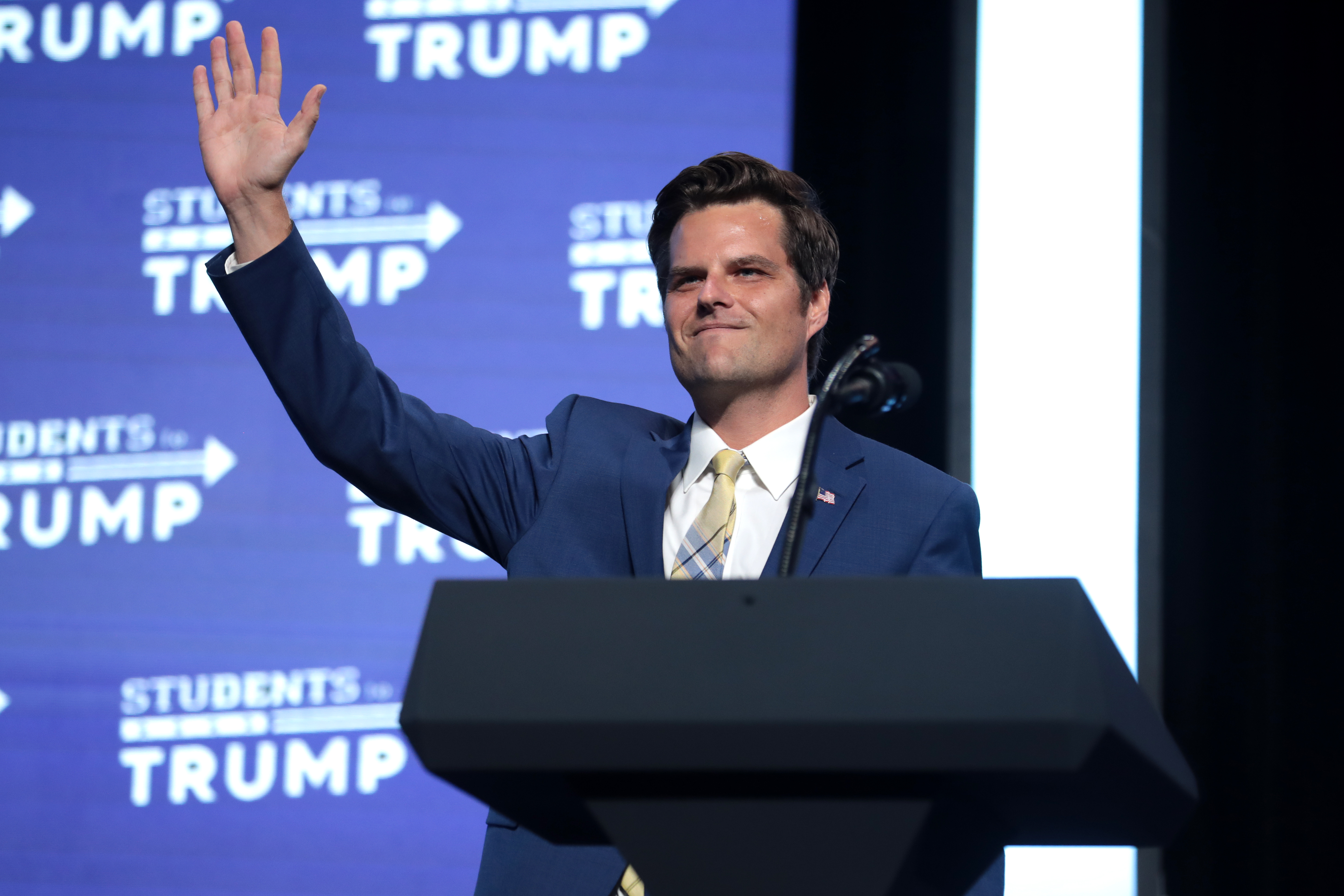 U.S. Congressman Matt Gaetz speaking with supporters at an "An Address to Young Americans" event, featuring President Donald Trump, hosted by Students for Trump and Turning Point Action at Dream City Church in Phoenix, Arizona.